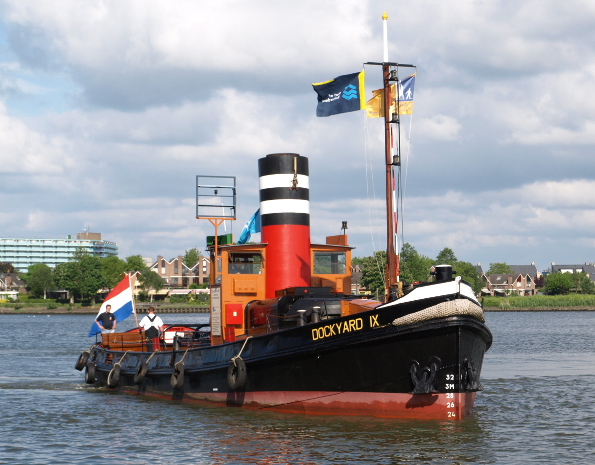 Dockyard IX in Dordrecht